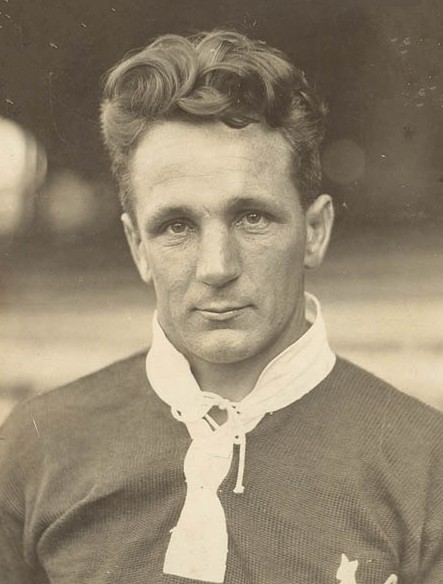 Jim Craig, Queensland Rugby League Captain 1924